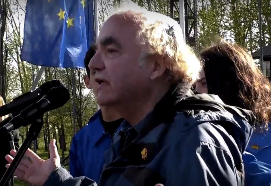 Justice Thomas Walther speaks at the 2017 March of the Living ceremony (photo credit: Eli Rubenstein)